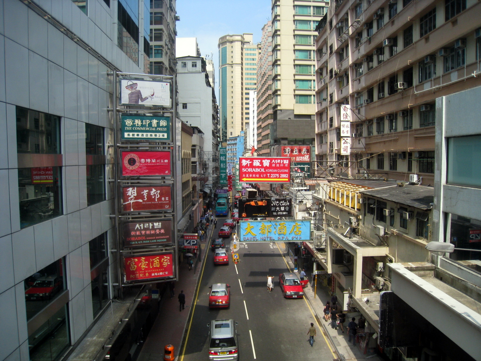 Kimberley Road 金巴利道